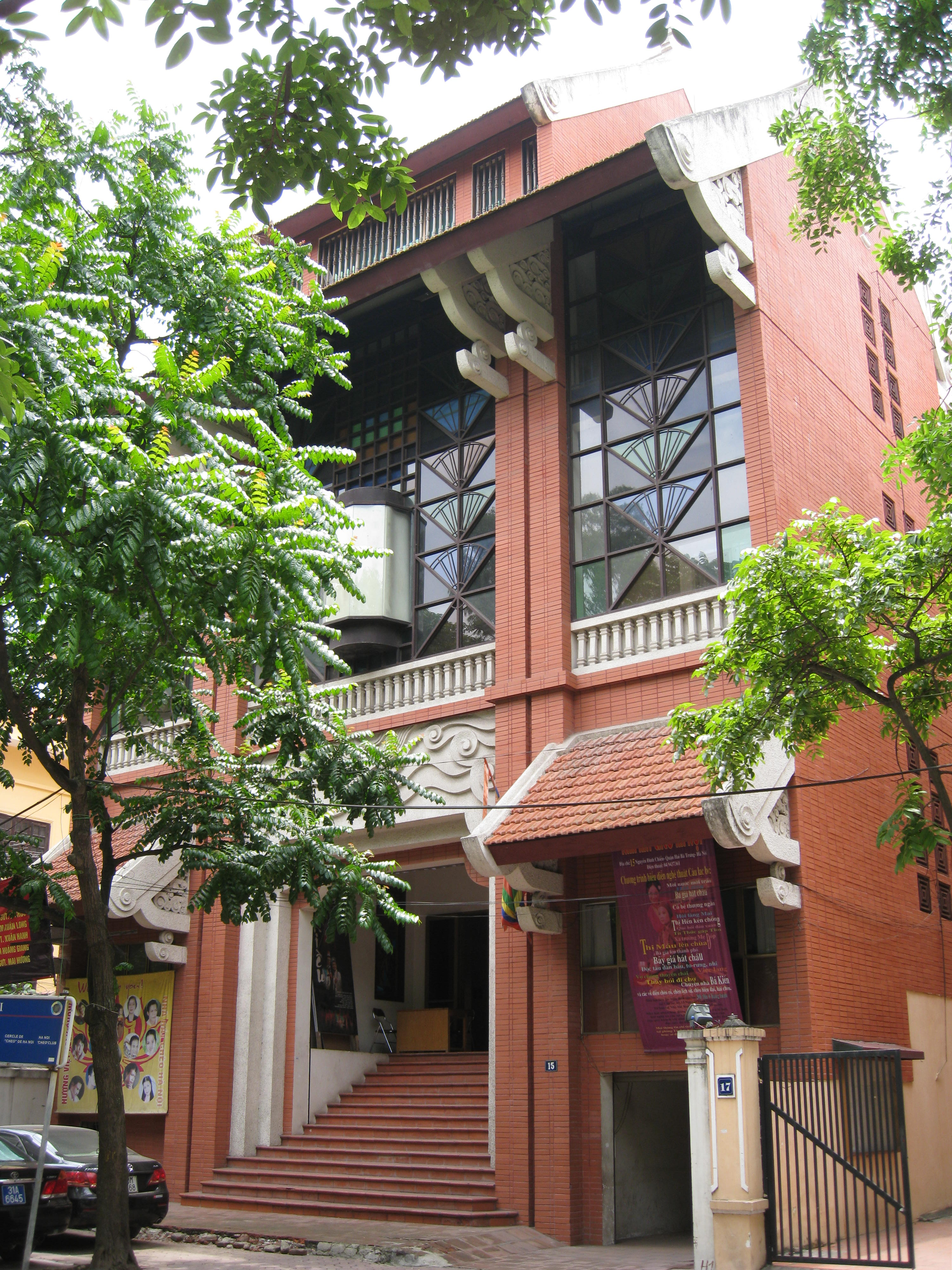 Theatre of chèo.